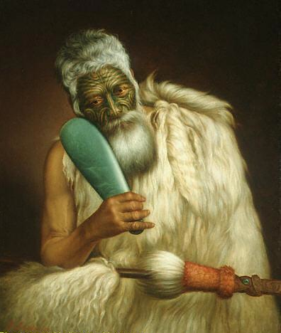 Chief of the Te Atiawa Tribe Wiremu Kingi